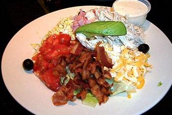 Description: Picture taken of Cobb Salad May 9, 2006. Jerry's Famous Deli. Marina del Rey, California.